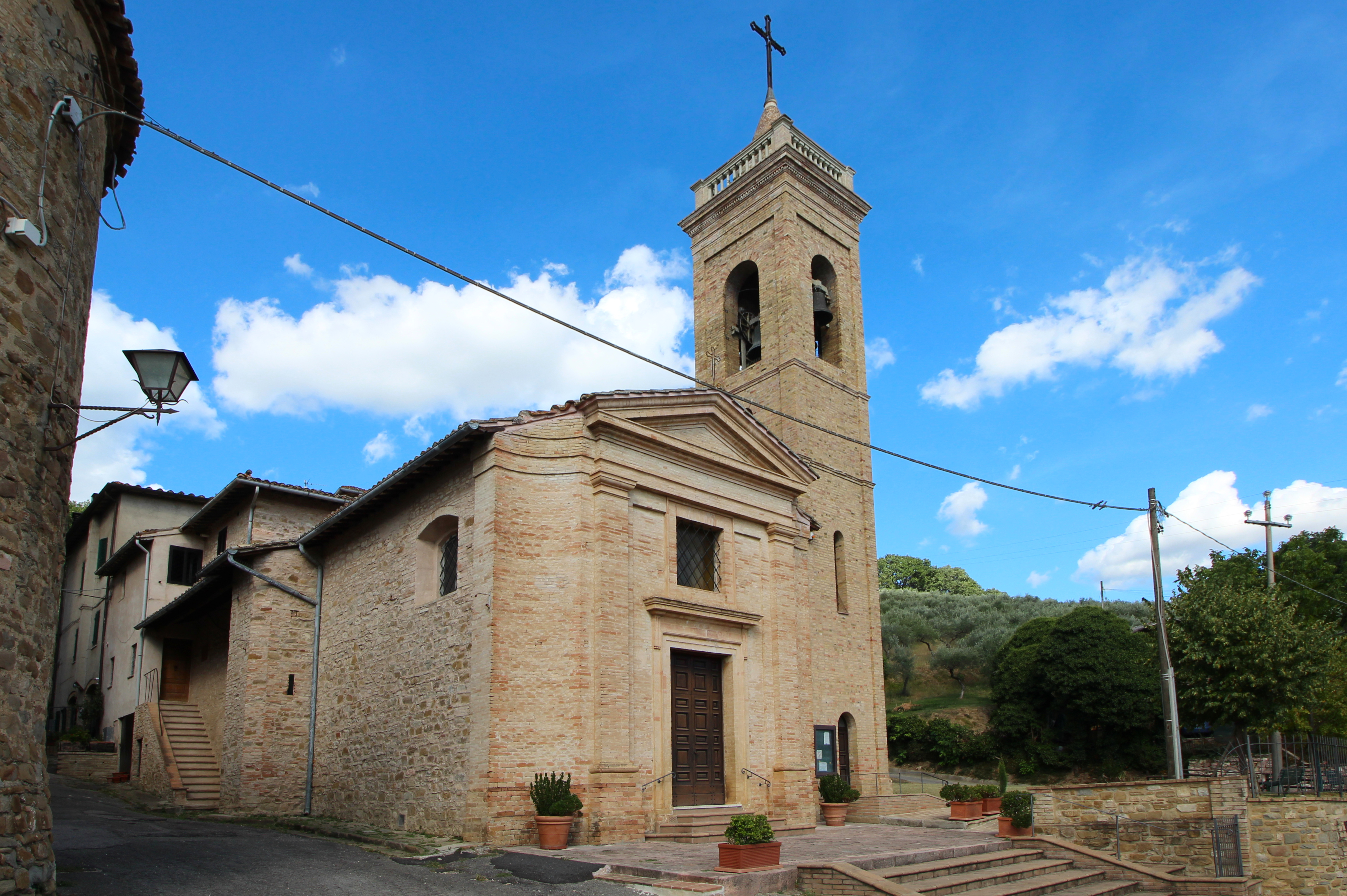 Church San Bernardino, Tordibetto, hamlet of Assisi, Province of Perugia, Umbria, Italy